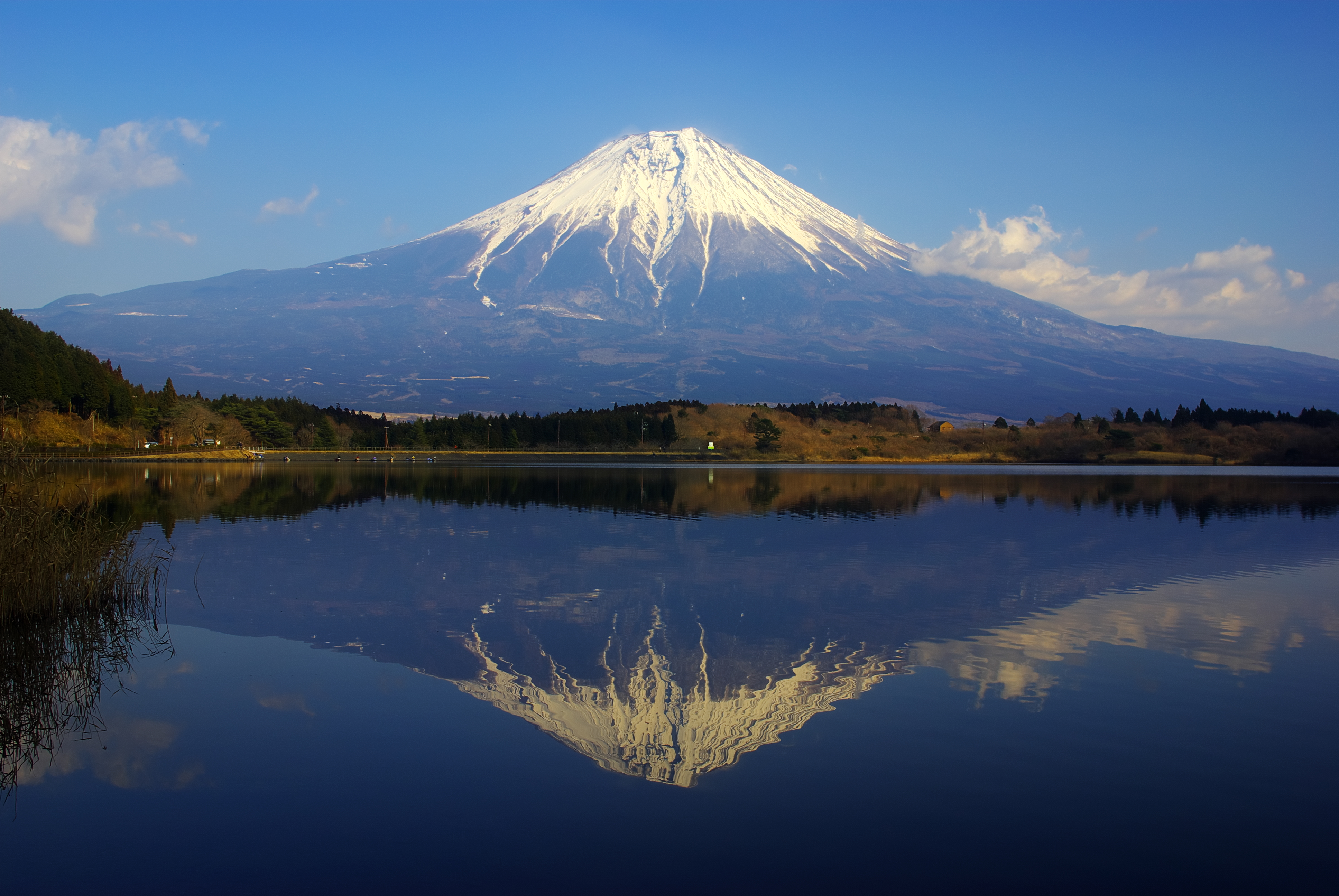 "Sakasa-Fuji" at Lake Tanuki.